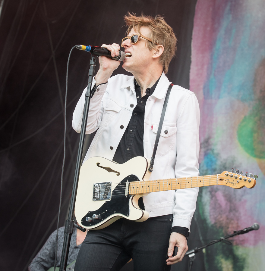 Spoon at the main stage in the Vigeland Park. The concert was part of Piknik i Parken and took place on 22. June 2017 in Oslo. Lineup: Britt Daniel (guitar and vocal), Jim Eno (drums), Rob Pope (bass guitar), Alex Fischel (keyboard) and Eric Harvey (guitar).